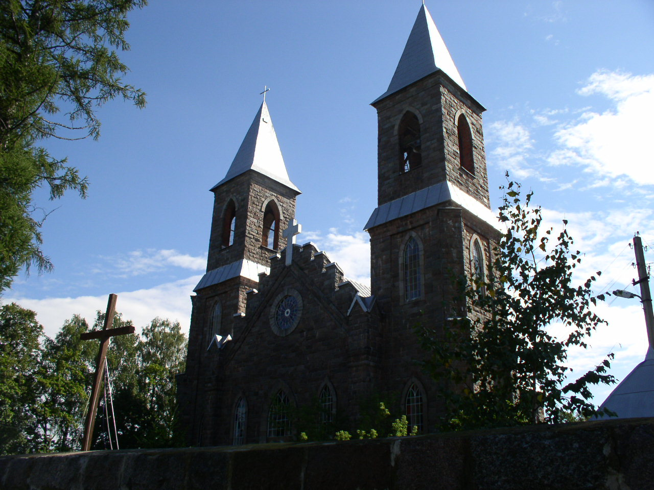 Church of Saint Joseph. Rubyazhevichy, Belarus.